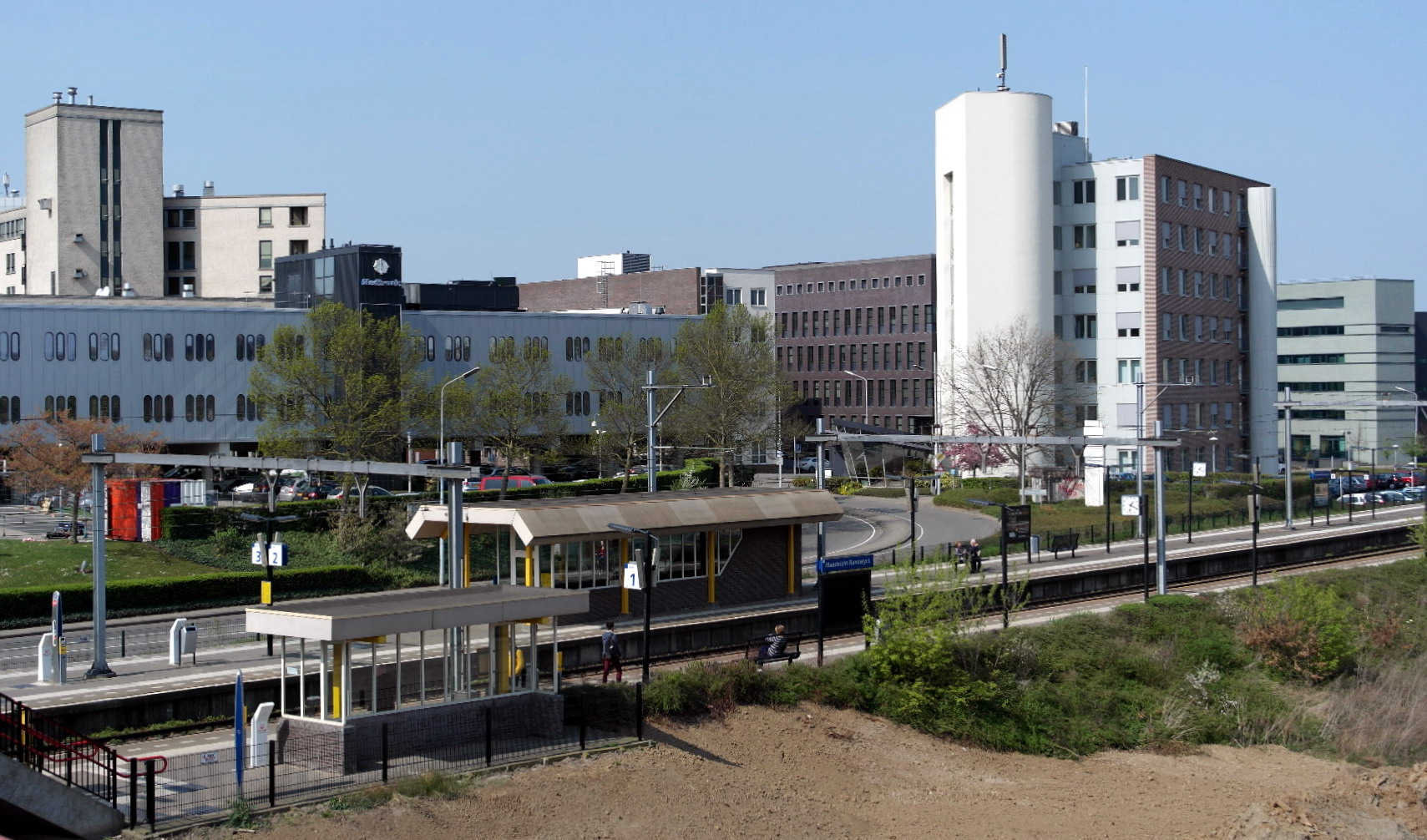 Maastricht, the Netherlands. View of Randwyck train station and offices in the southeastern Randwyck business district.